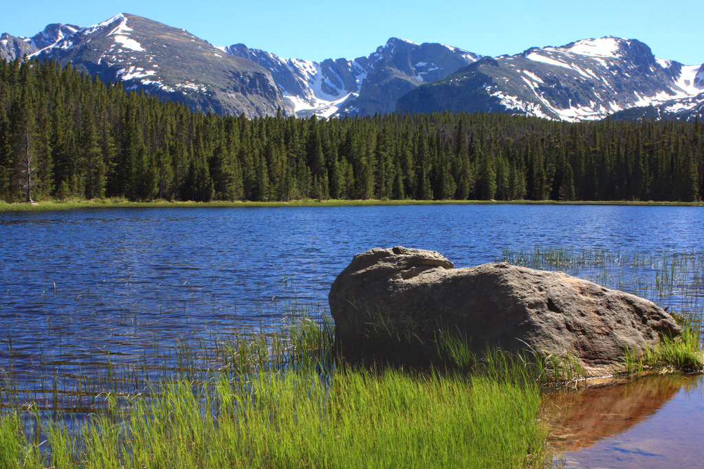 Rocky Mountain National Park, Colorado, USA, Bierstadt Lake